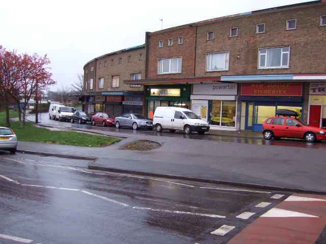 Shops at Hackenthorpe. The shopping precinct.